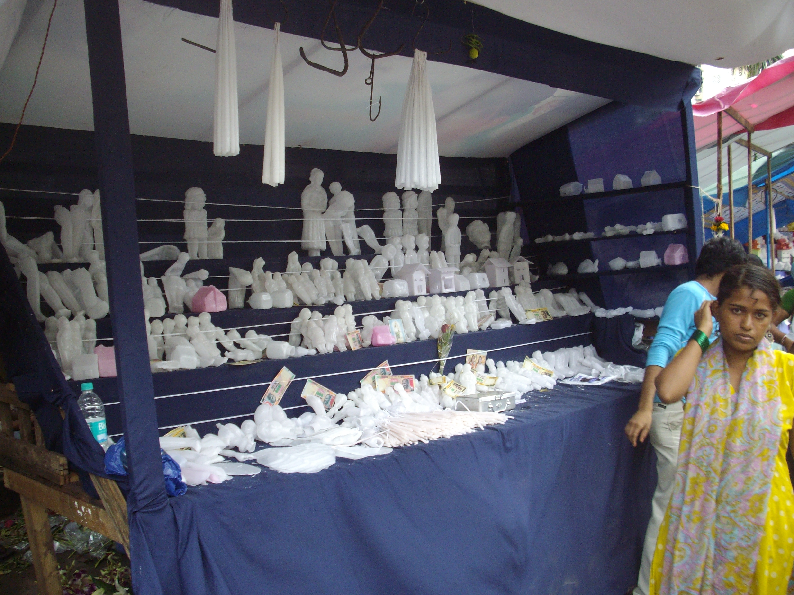 One of the numerous "Candle Stalls" on the road leading to "Mount Mary Church" in Bandra.